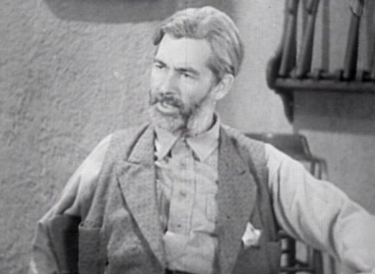 Gabby Hayes in Texas Terror (1935)